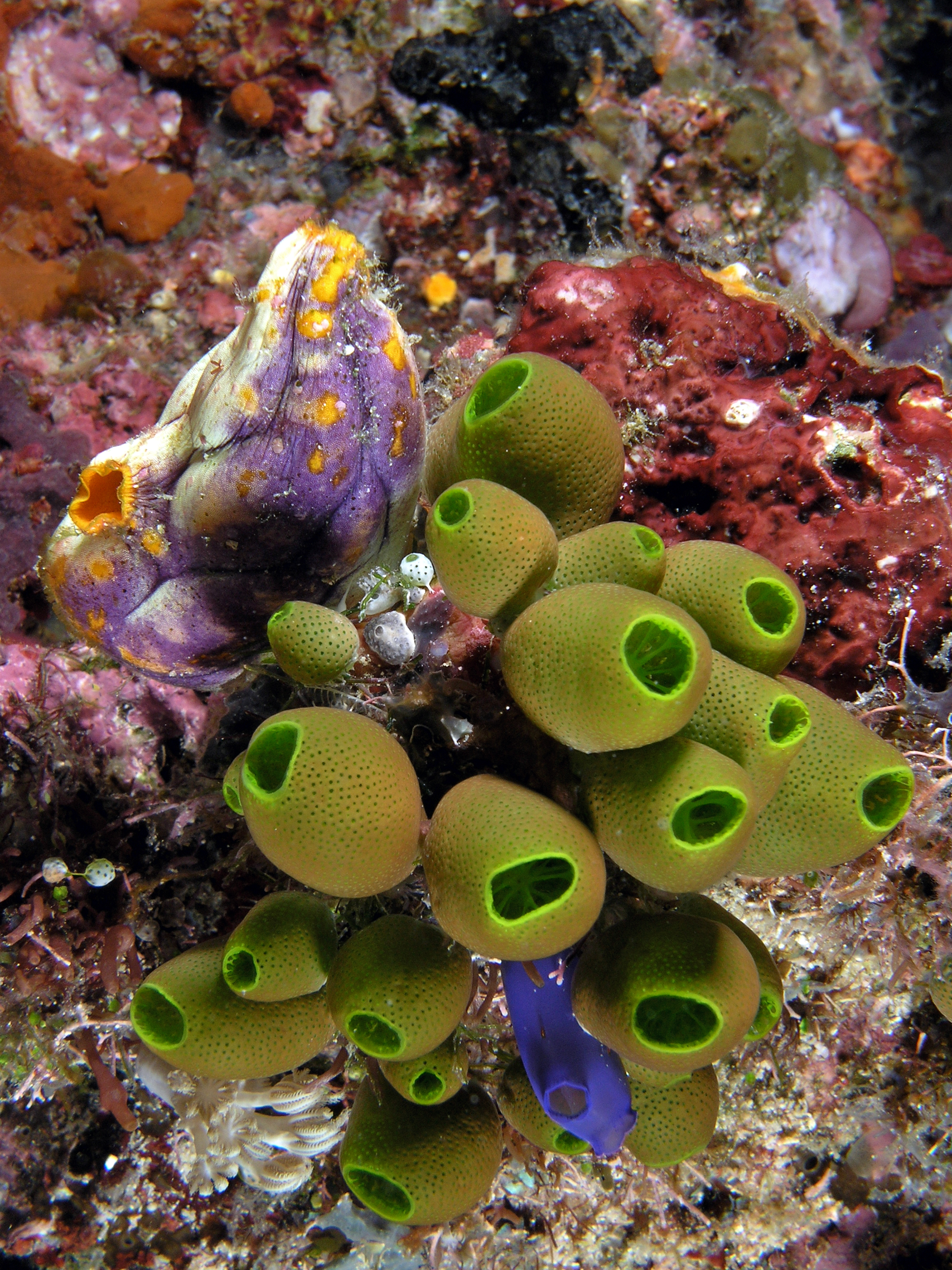 Several species of tunicates in Komodo National Park. Atriolum robustum are green, Polycarpa aurata is purple and yellow and Rhopalaea spp. in blue